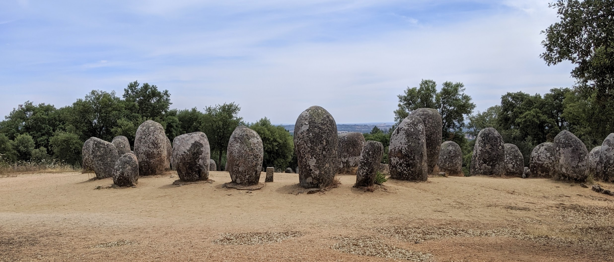 The megaliths of the Almendres Cromlech, Guadalupe, Évora, Portugal, 2019